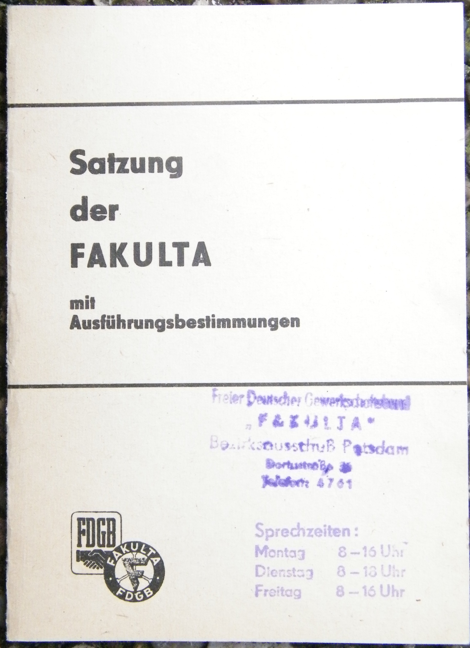 First site of the statute of FAKULTA, a German (German Democratic Republic (GDR)) trade union insurance